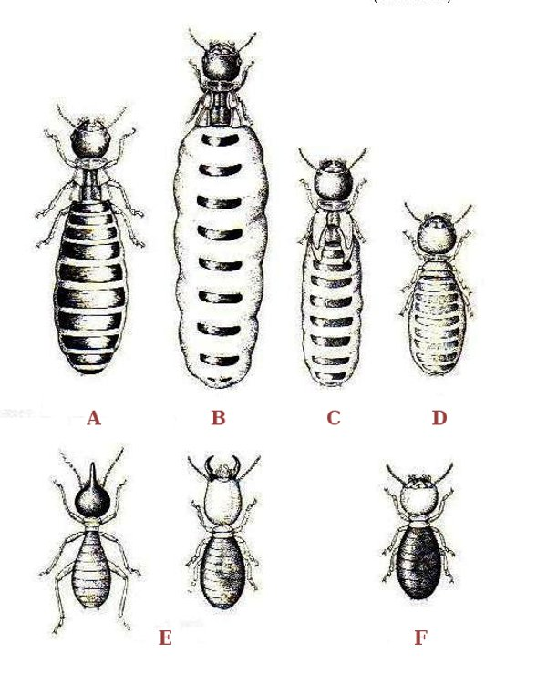 Functional polymorphism in termites